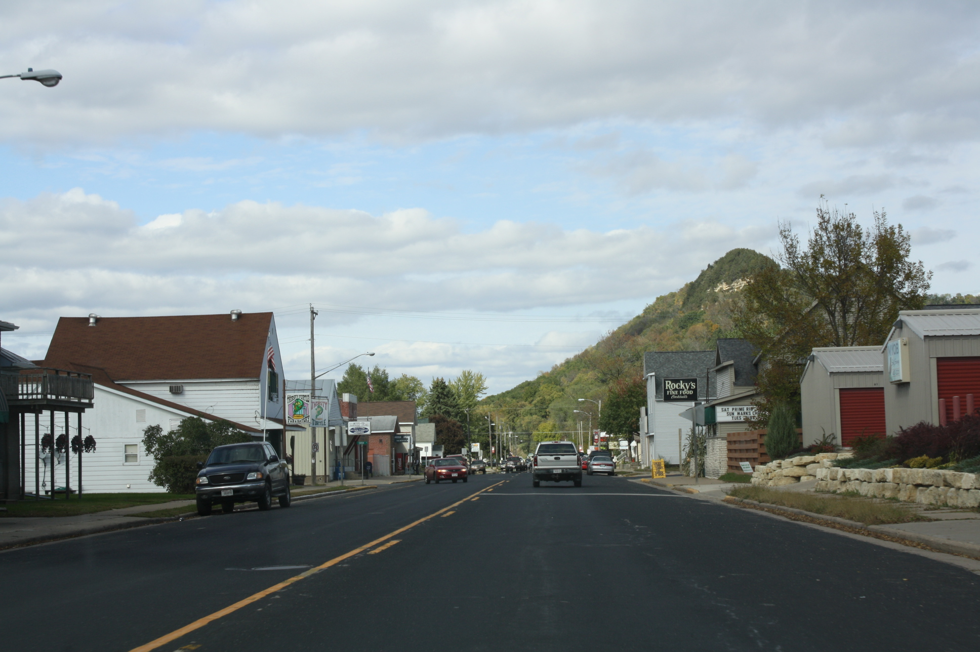 Looking north at downtown Stoddard, Wisconsin while traveling on Wisconsin Highway 35.